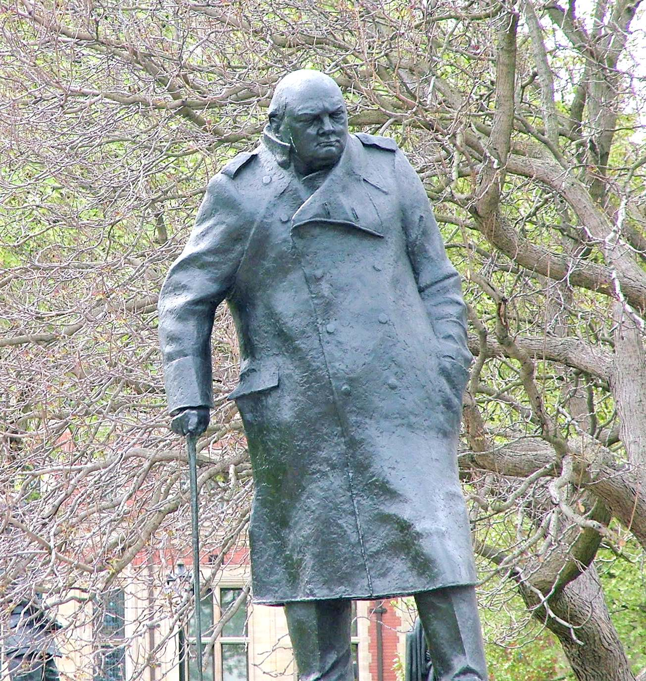 Winston Churchill statue in London, Parliament Square. (Apparent duplicate of the statue at Churchill House, Australian National University, Canberra.)